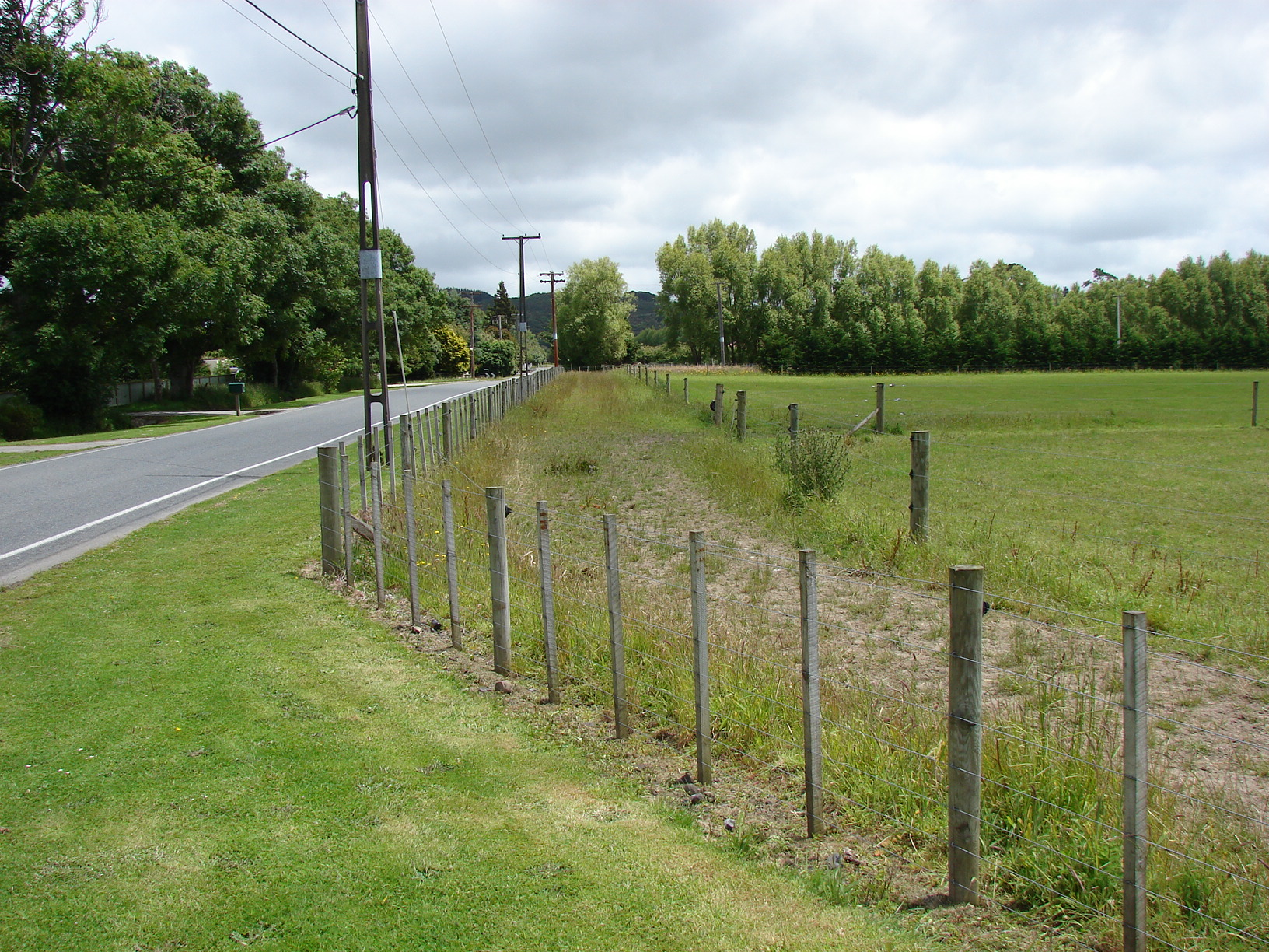 Mangaroa railway station, looking west at the former Flux Road level crossing and in the direction of the Mangaroa River and Cruickshanks Tunnel. Photographed by Matthew25187 on 2006-12-24.